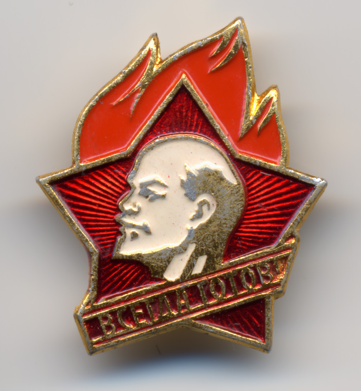 Pioneers Organization Member Pin.